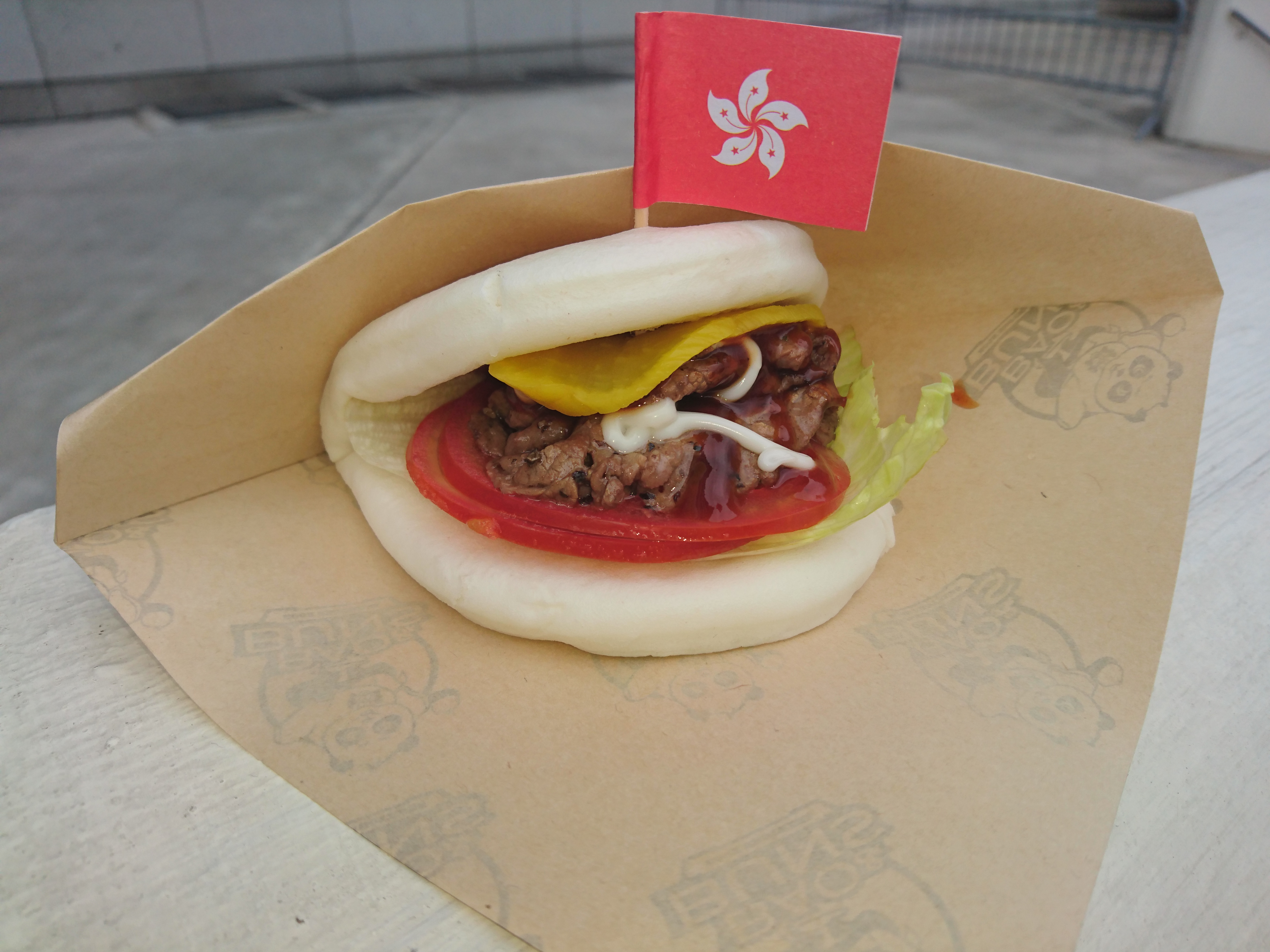 Steamed Bun Burger